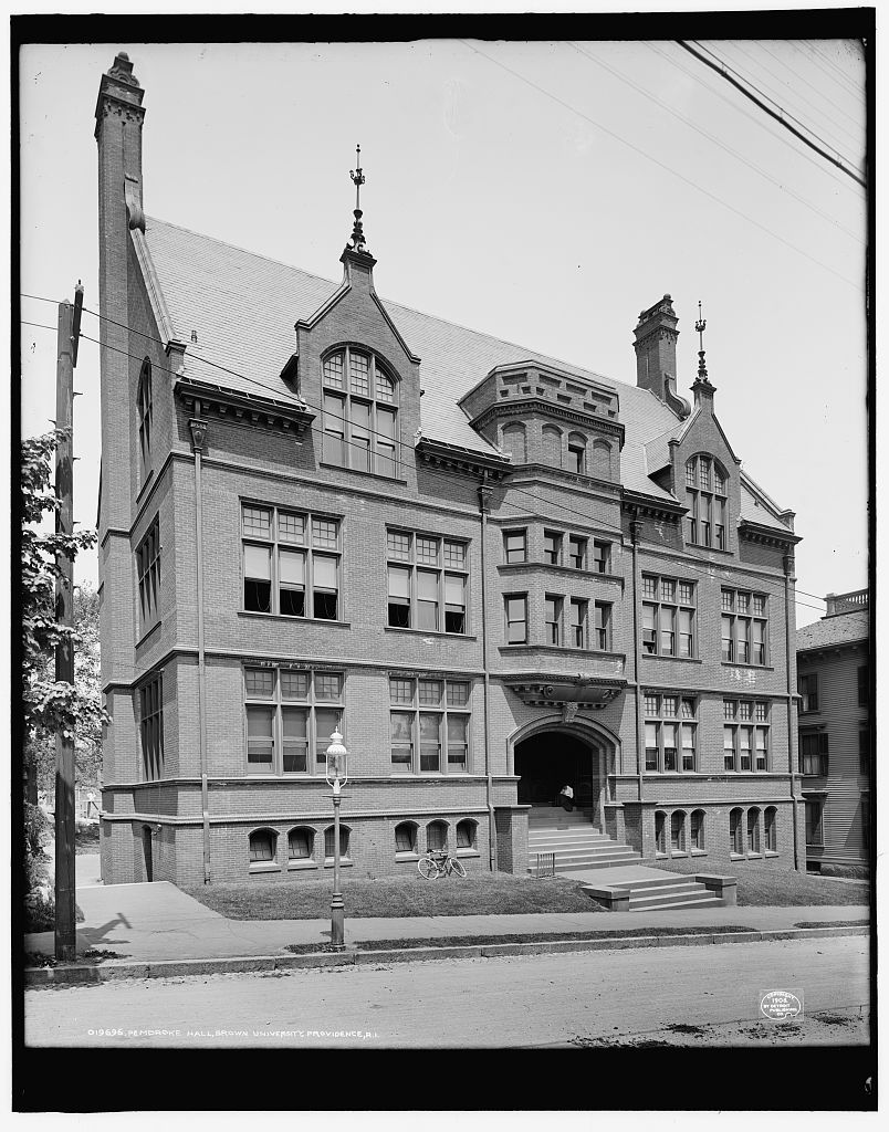 Title Pembroke Hall, Brown University, Providence, R.I. Contributor Names Detroit Publishing Co., copyright claimant Detroit Publishing Co., publisher Created / Published c1906. Subject Headings - Universities & colleges - Educational facilities - United States--Rhode Island--Providence Format Headings Dry plate negatives. Genre Dry plate negatives Notes - Detroit Publishing Co. no. 019696. - Gift; State Historical Society of Colorado; 1949. Medium 1 negative : glass ; 8 x 10 in. Call Number/Physical Location LC-D4-19696 [P&P] Source Collection Detroit Publishing Company photograph collection (Library of Congress) Repository Library of Congress Prints and Photographs Division Washington, D.C. 20540 USA Digital Id det 4a13610 //hdl.loc.gov/loc.pnp/det.4a13610 Library of Congress Control Number 2016806226 Reproduction Number LC-DIG-det-4a13610 (digital file from original) Rights Advisory No known restrictions on publication. Language English Online Format image Description 1 negative : glass ; 8 x 10 in. LCCN Permalink